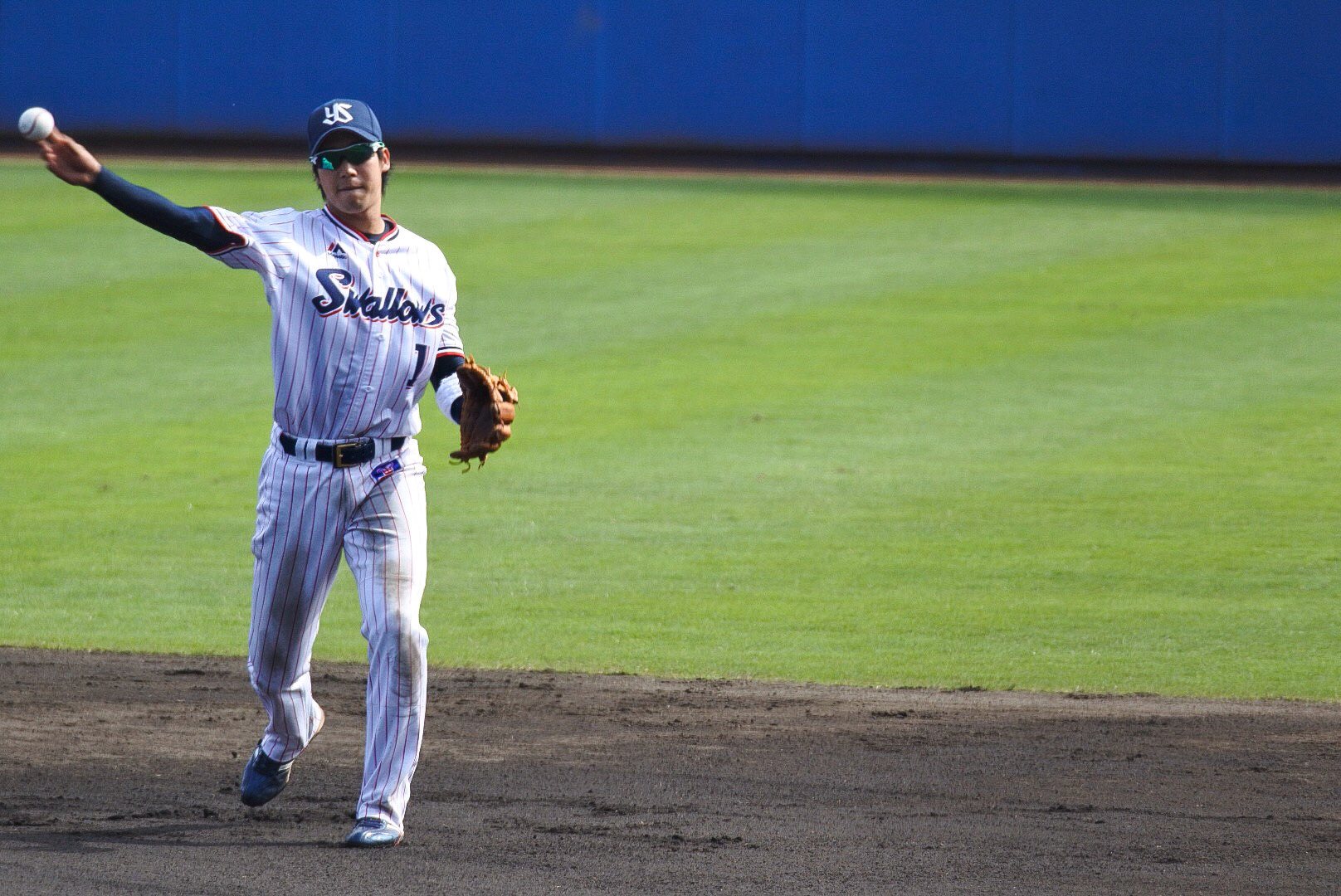 Apr 16, 2016 at 14:48, Ehime 松山中央公園野球場